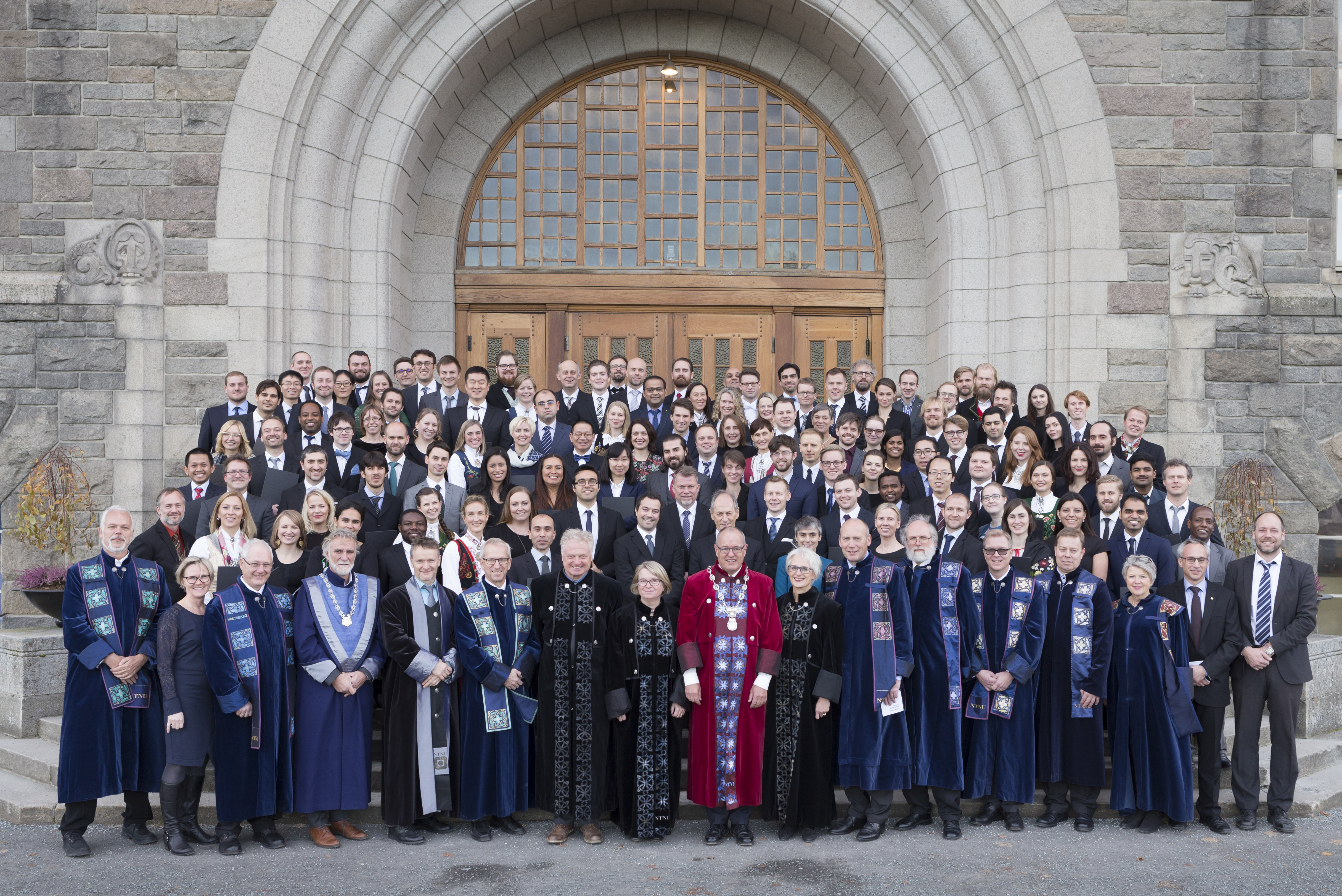 Doctorate candidates, honorary doctors, rector and the university's management at Norwegian University of Science and Technology, November 2016